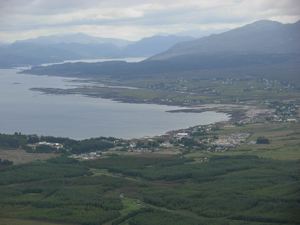 View of Broadford, Isle of Skye from a mountain.